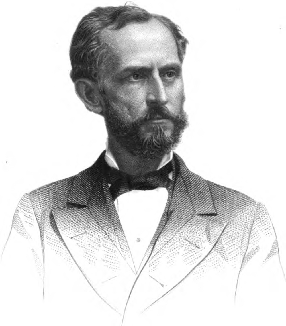 Manning Force was a politician and soldier from Ohio.